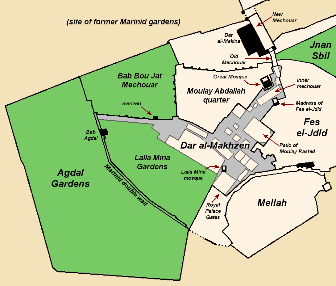 A rudimentary at a map/plan of the Dar al-Makhzen or Royal Palace complex in Fes, with some of its most identifiable historical elements (and some other relevant landmarks nearby) indicated. This was based on the map in "Fes el-Jdid plan (version 2).png", which in turn was a cropped and modified version of "Carte Enceintes de Fes.PNG" by user Omar-toons. I then copied (in a very approximate way) the features visible on Google satellite imagery, while consulting maps and information in books and scholarly articles.